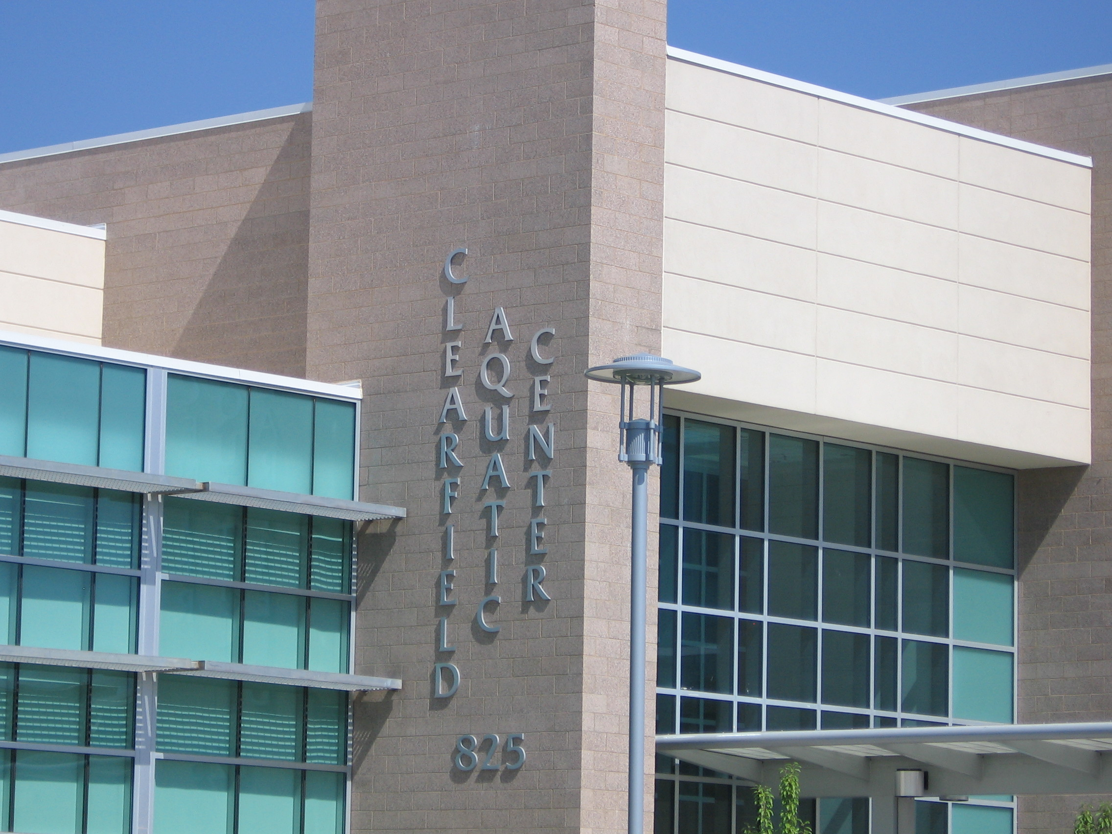 Clearfield Aquatic Center close up Clearfield City